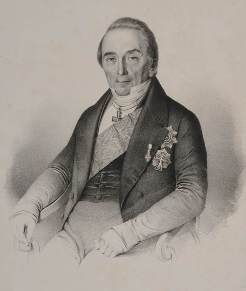 lithography portrait of Conrad Graf zu Rantzau